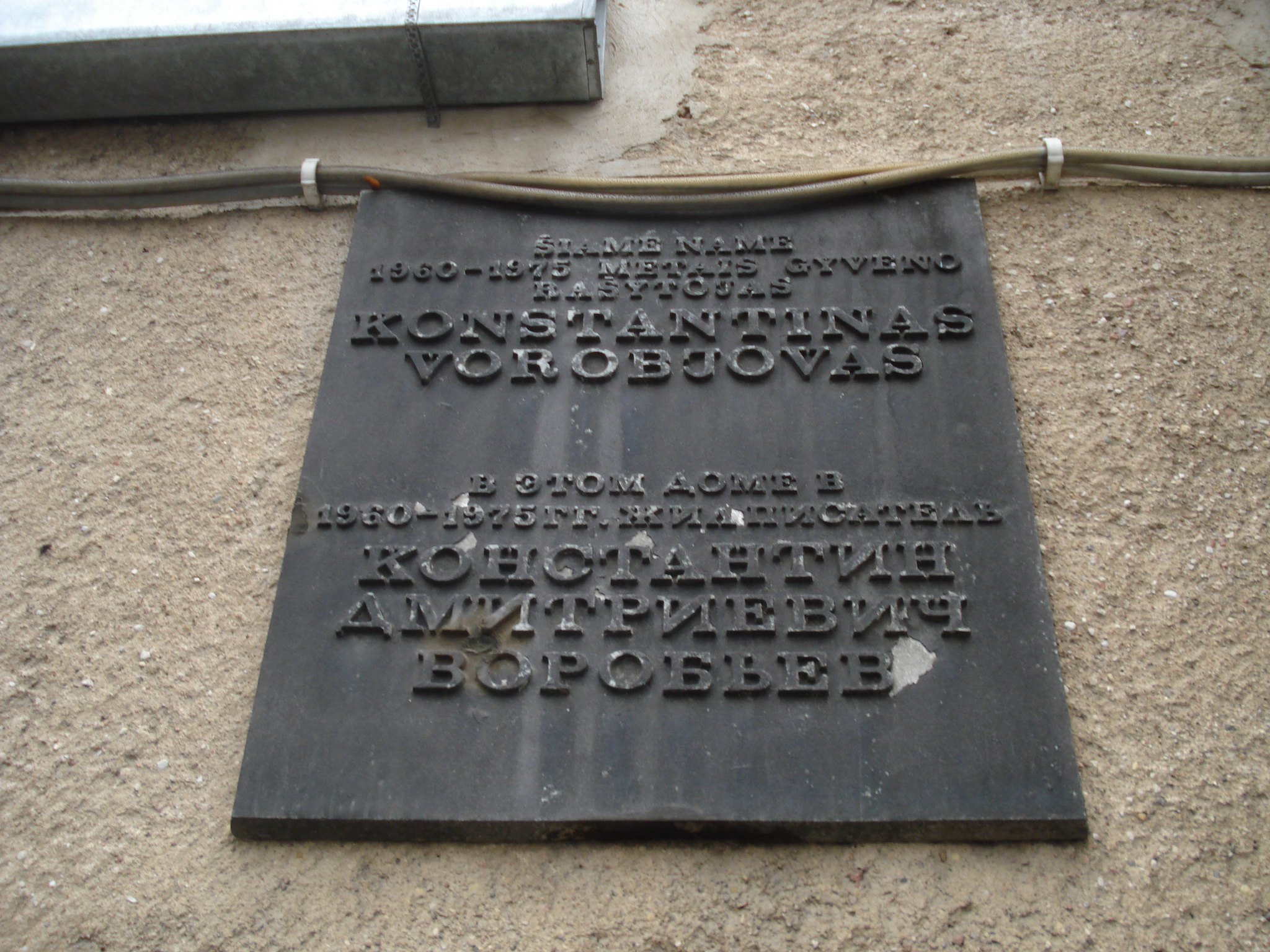 Plaque on the house in Vilnius (Verkių g. 1) where Russian writer Konstantin Vorobyov lived 1960-1975Lietuvių: Atminimo lenta ant namo Vilniuje (Verkių g. 1), kuriame 1960-1975 metais gyveno rašytojas Konstantinas Vorobjovas